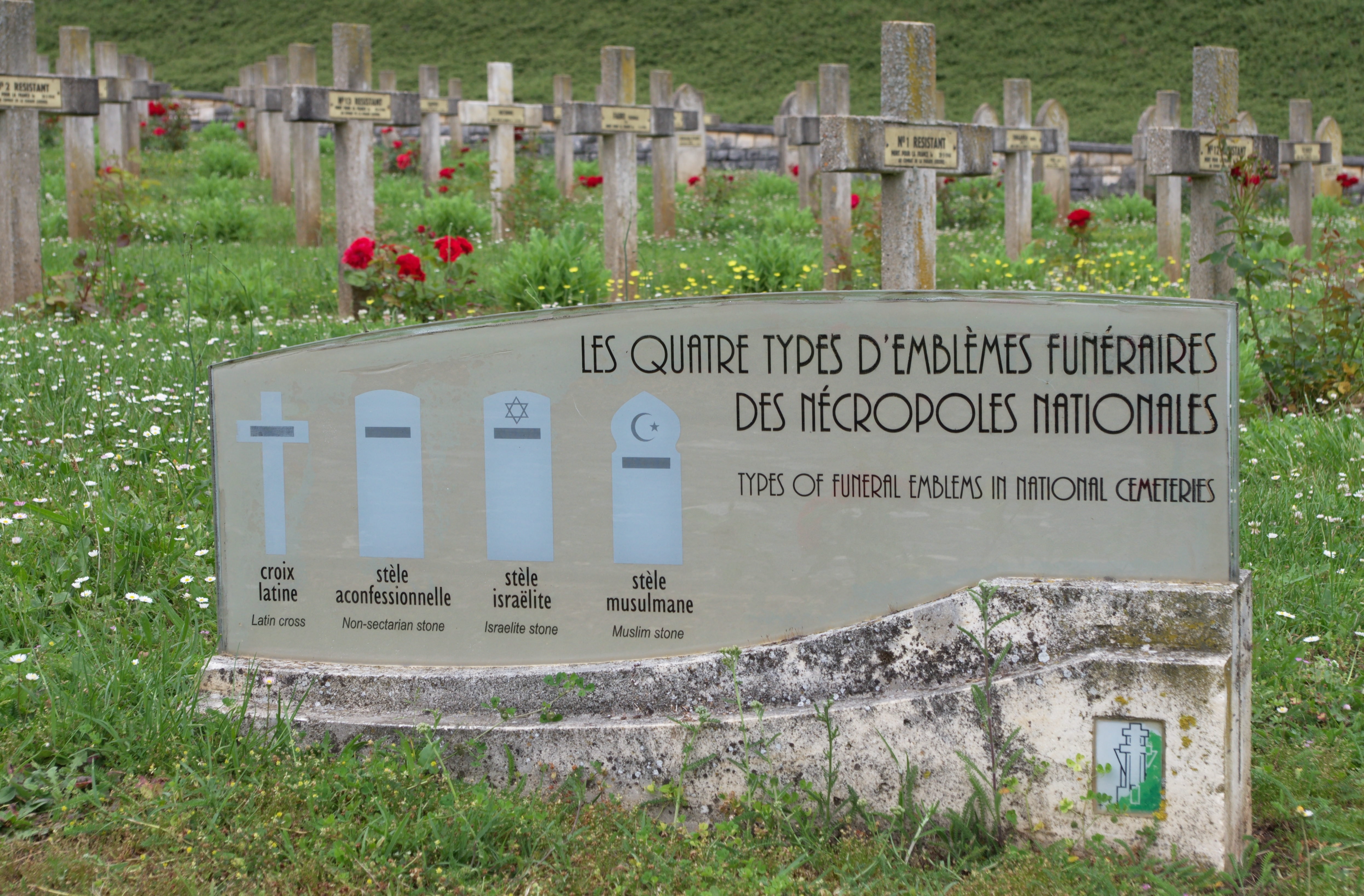 Information about the types of funeral emblems in French national cemeteries. War memorial of Chasseneuil-sur-Bonnieure, Charente, France.